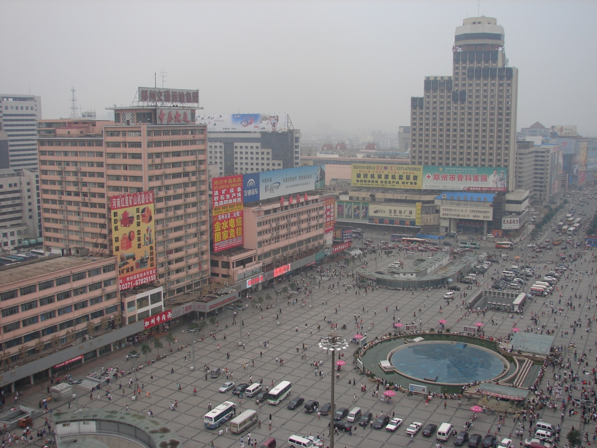 Place: Zhengzhou, China - the square in front of the railway station